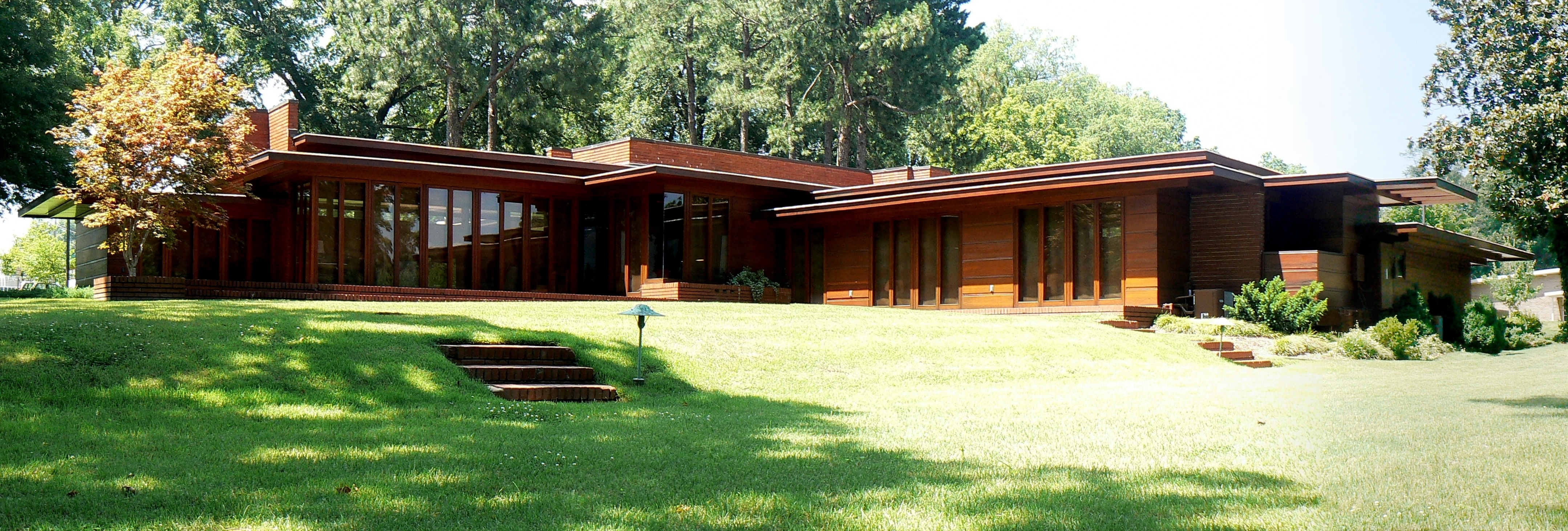 Stitched view of the "front" side of the Rosenbaum House. This house in Florence, AL, USA was designed by Frank Lloyd Wright in his Usonian style for Stanley and Mildred Rosenbaum, and was built in 1940.